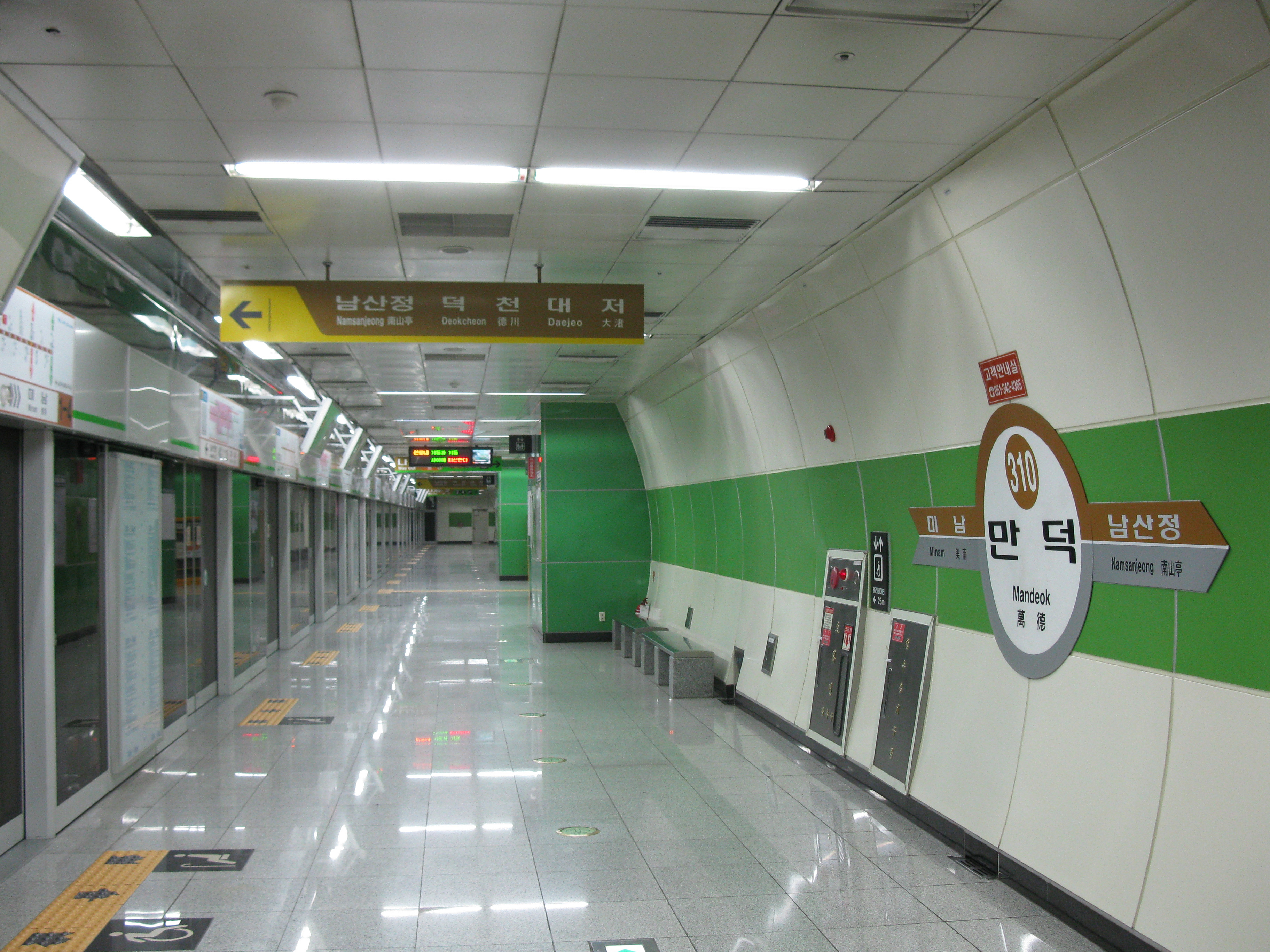 The platform at Mandeok Station, Busan Subway Line 3